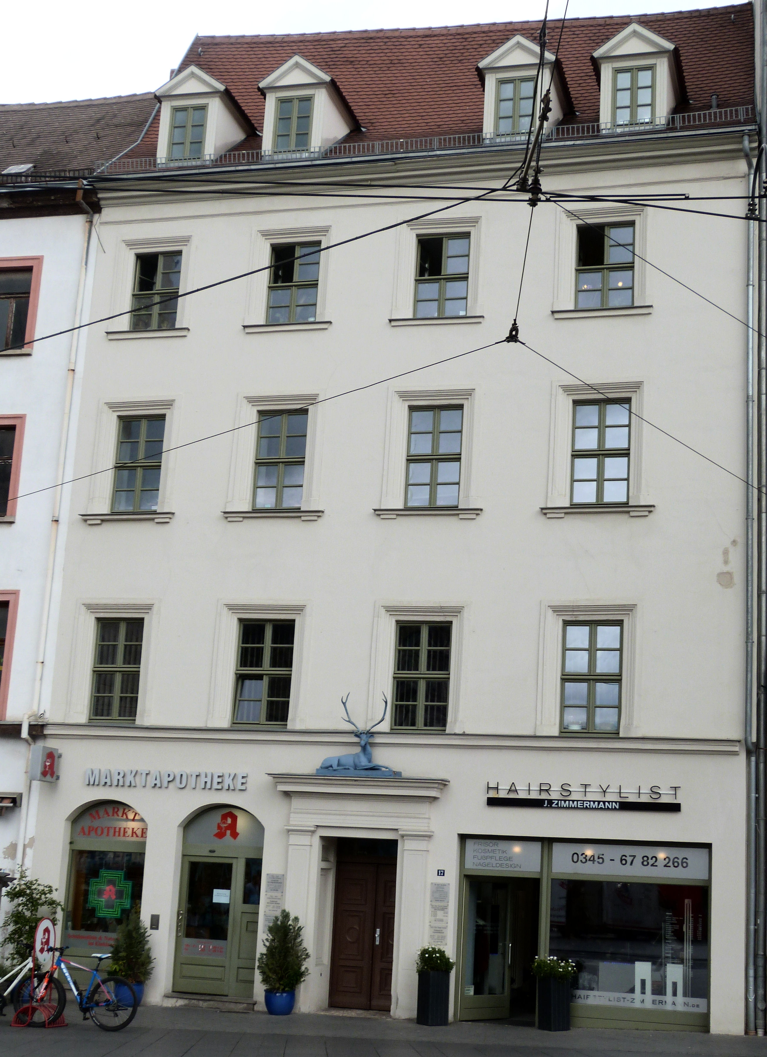 No. 17 Marktplatz (market square) in Halle (Saale)